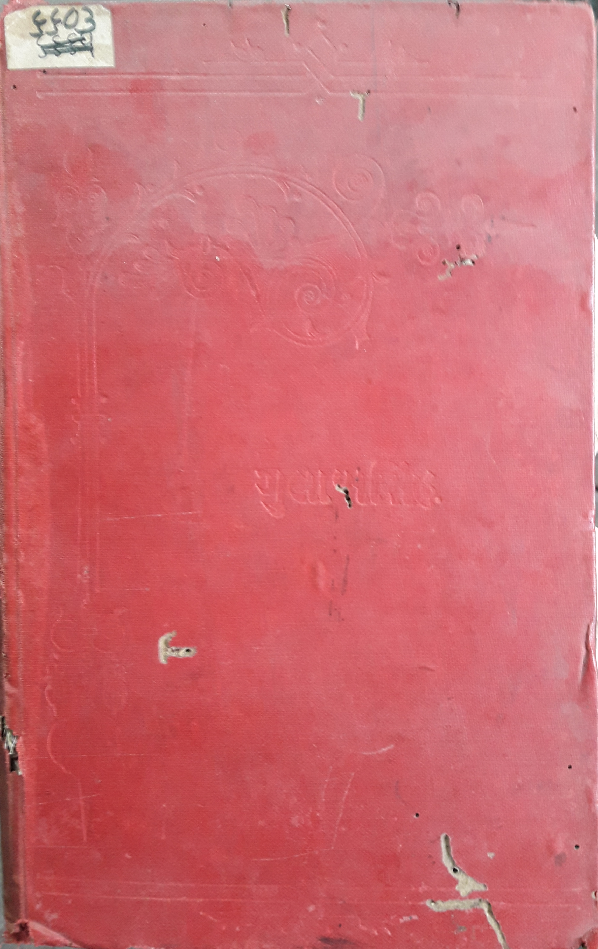 First edition cover page of 'Gulabsinh' (1897), a Gujarati novel by Manilal Nabhubhai Dwivedi (1858–1898)